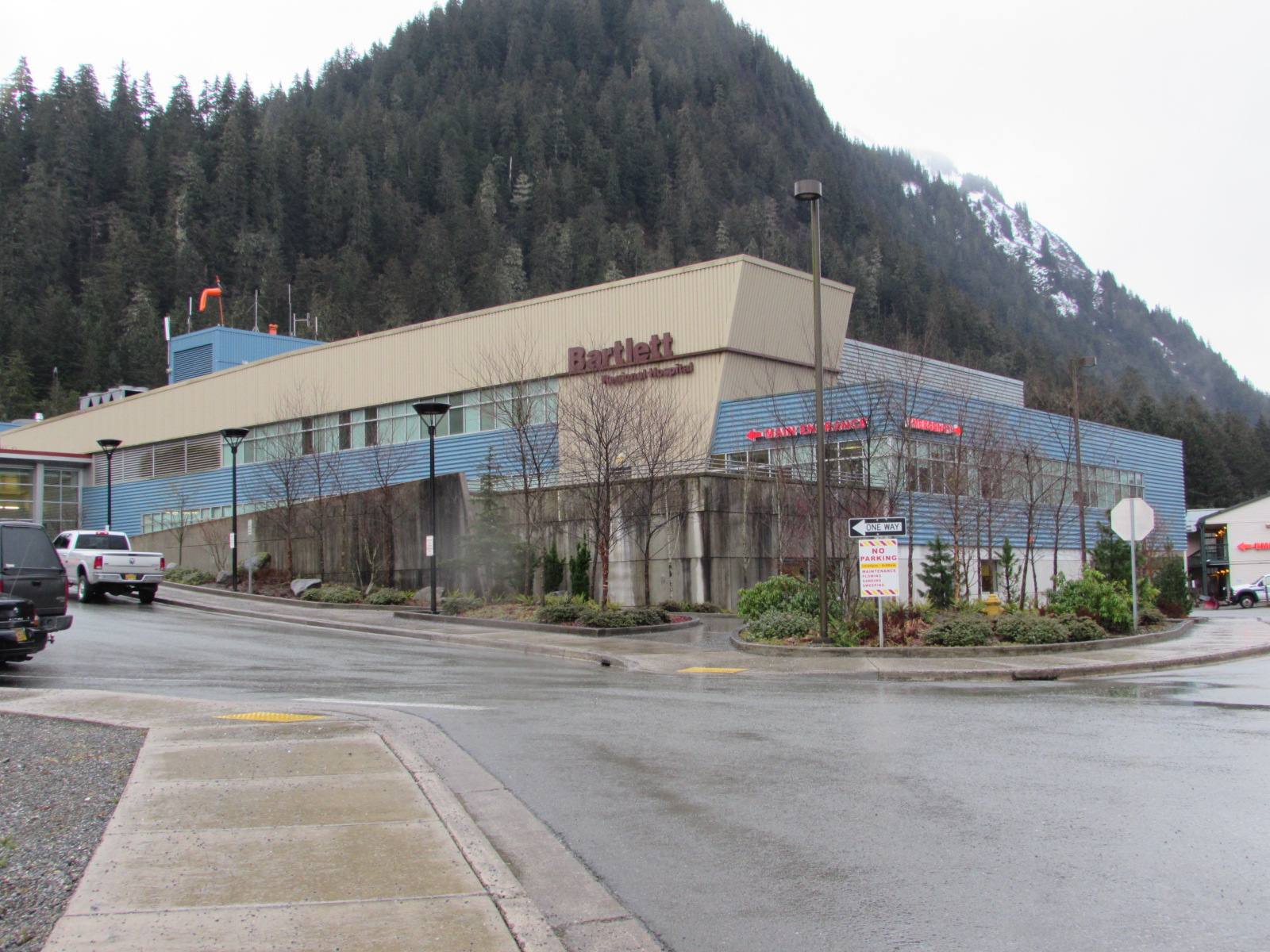 Bartlett Regional Hospital in Juneau, Alaska, on January 22, 2016